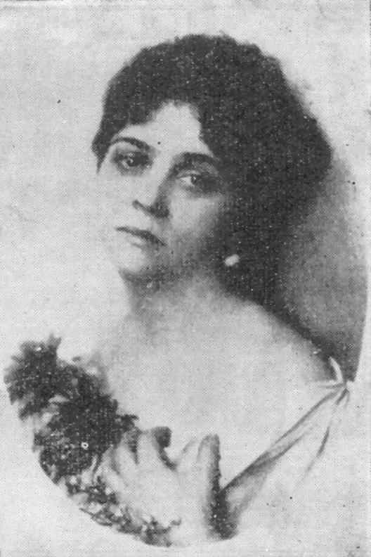 Bulgarian opera singer Bogdana Gyuzeleva-Vulpe (1878-1932)